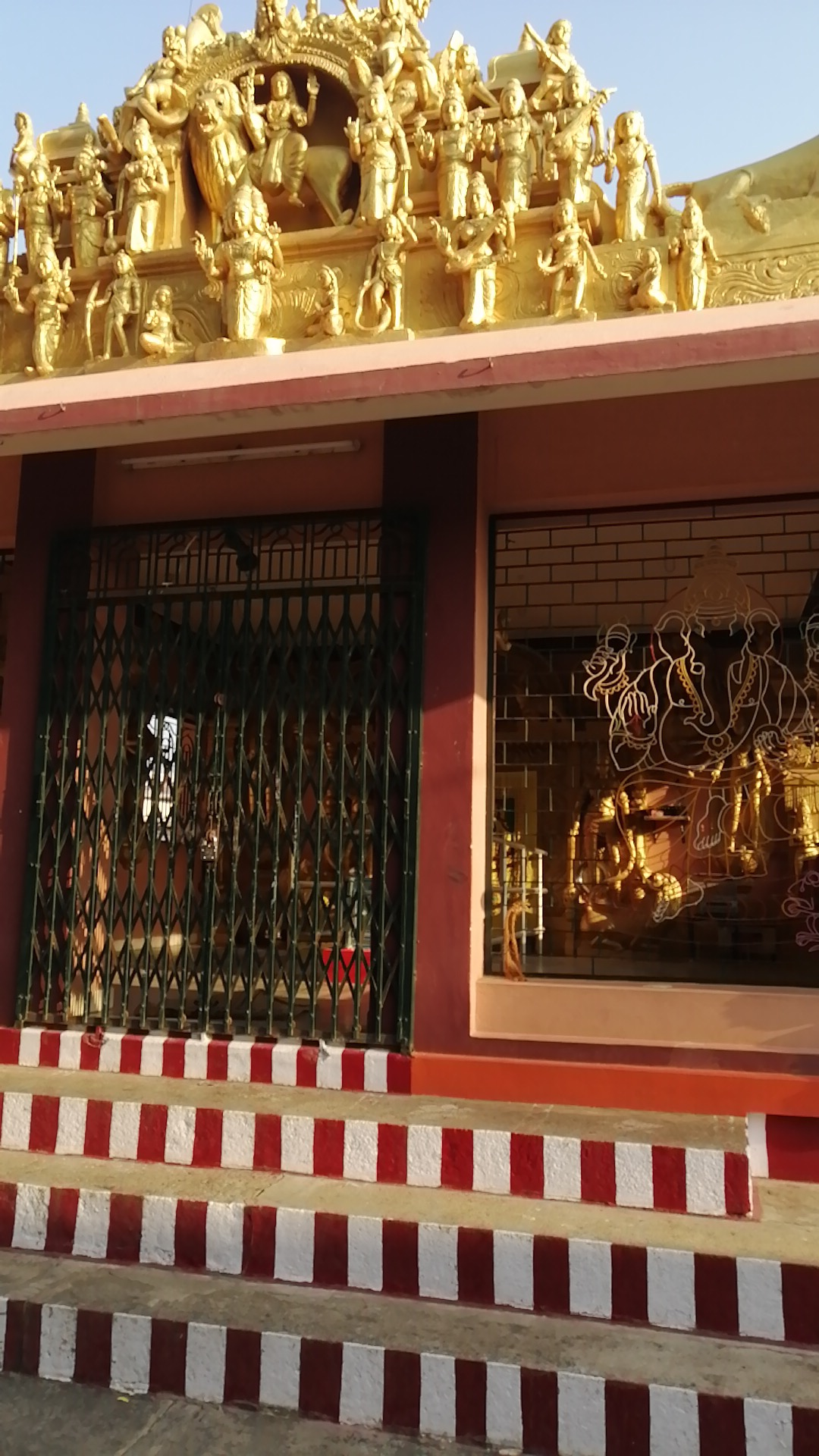 Kaliamman kovil temple near elementary school